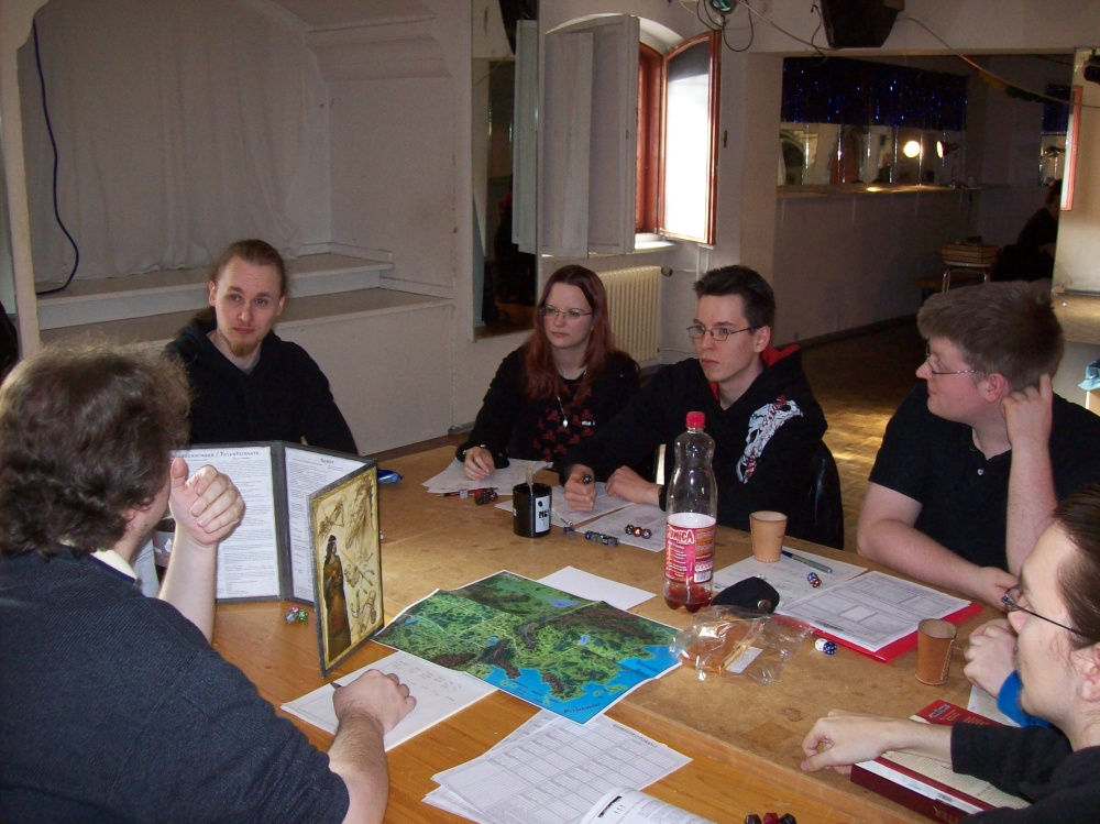 Role Playing Gamers at the Burg-Con in Berlin